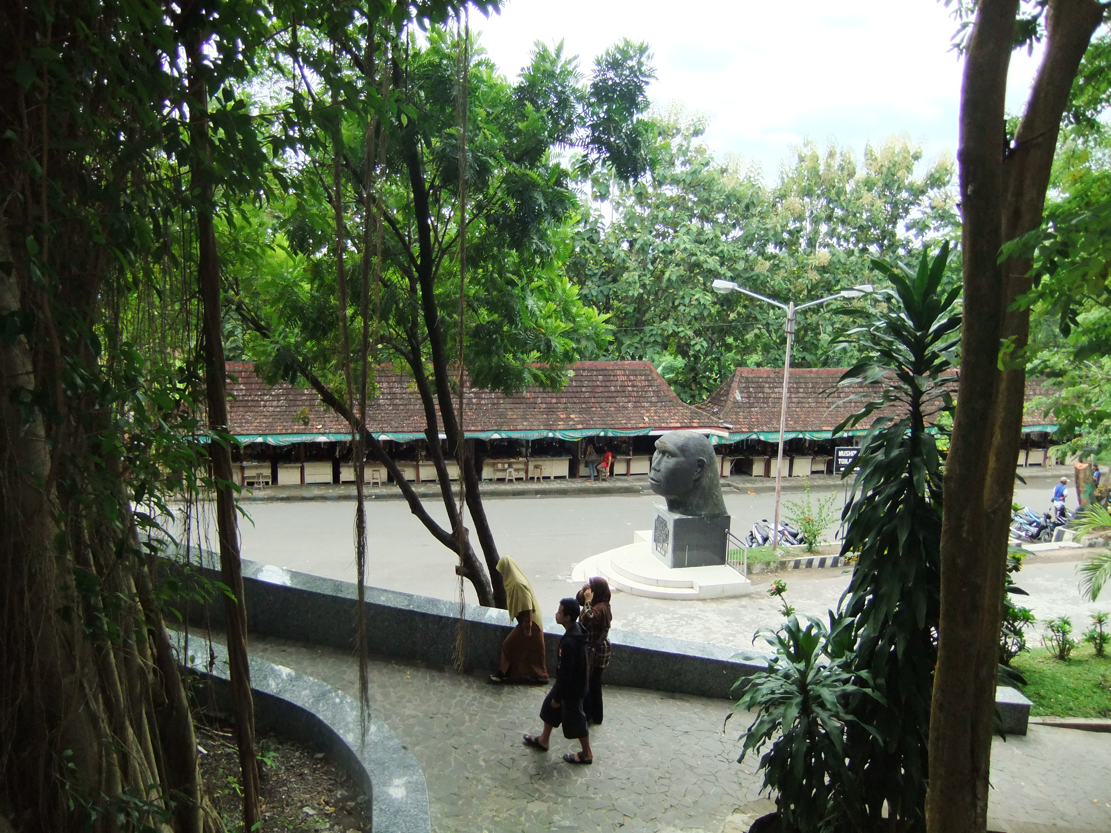 Sangiran Museum